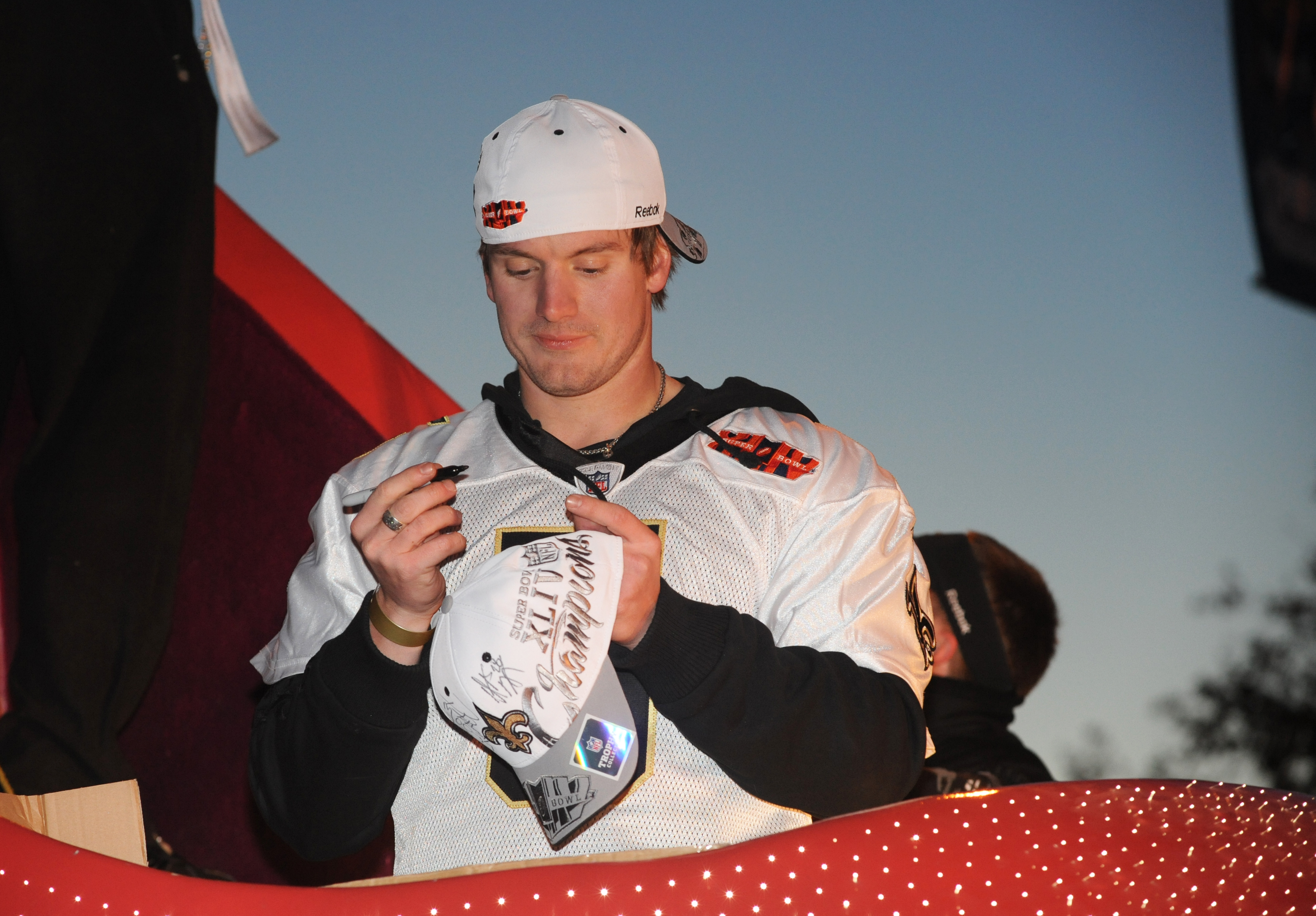 February 9, 2010